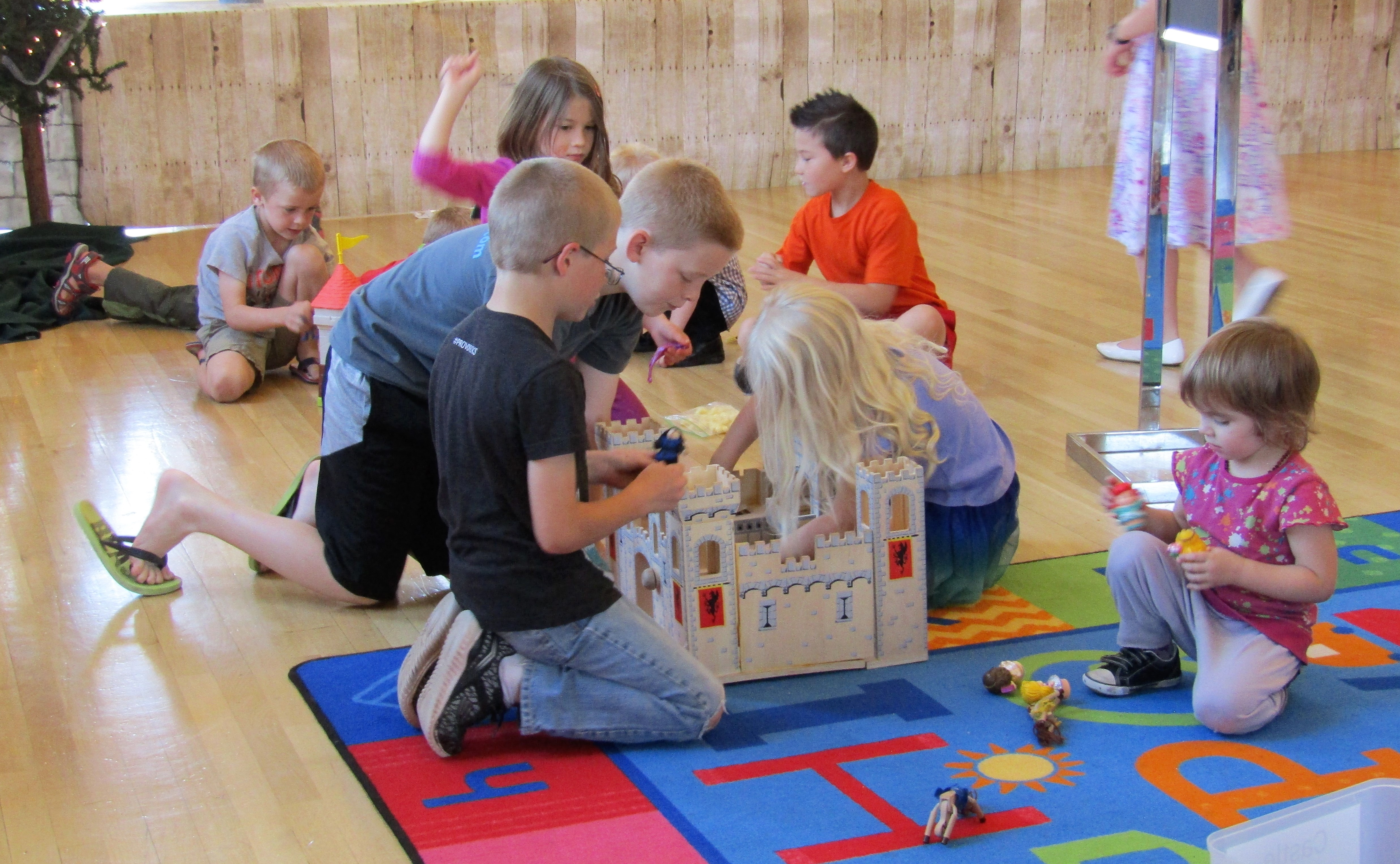 Children playing with castles at a Children's Book Festival in the Provo City Library, featuring Jessica Day George.